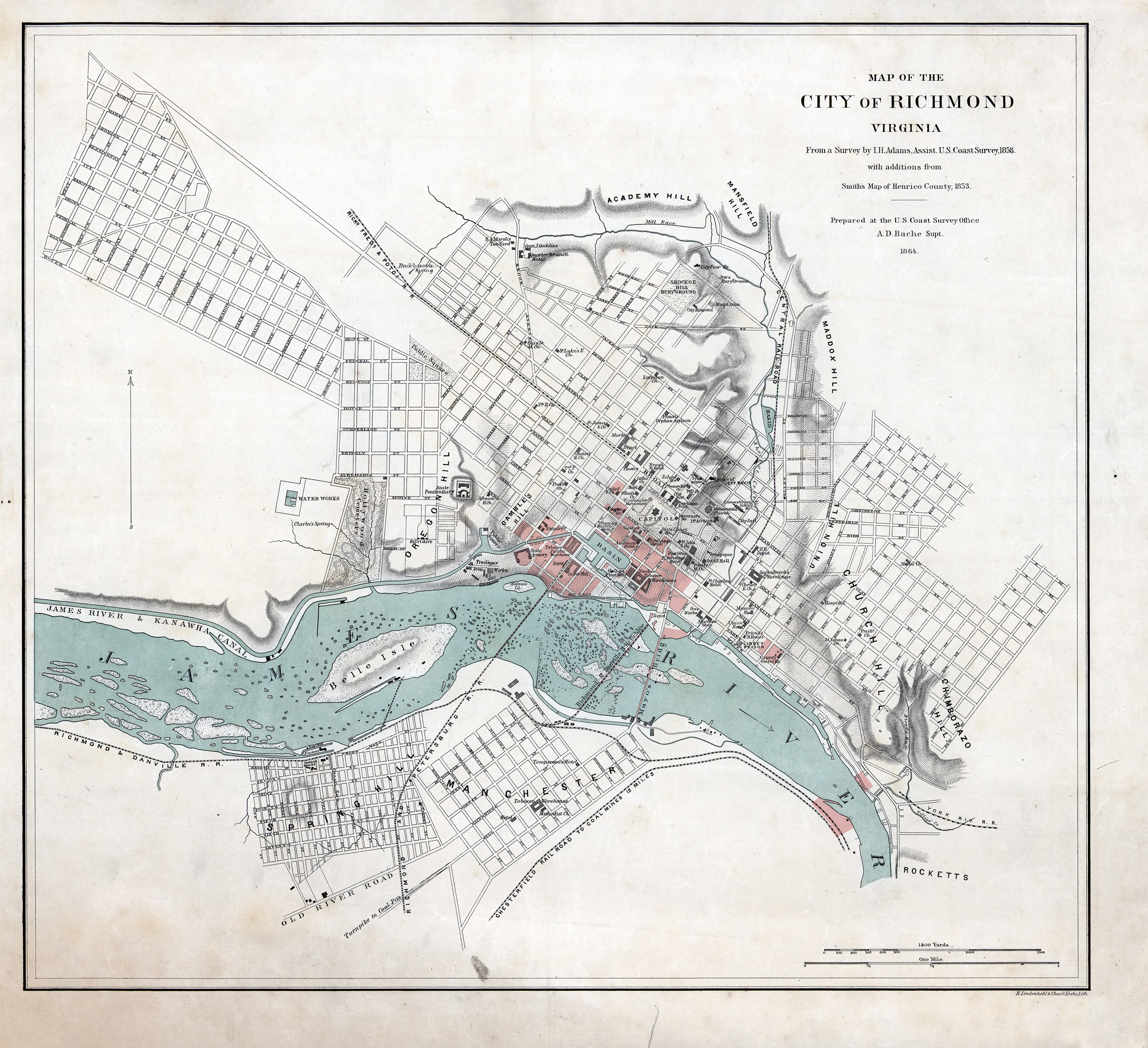 Source map: Map of Richmond 1864 small.jpg. Map of the City of Richmond, Virginia, showing areas (red) burnt during the Confederate evacuation in 1865. From a Survey by I.H. Adams, Assist. U.S. Coast Survey, 1858, with additions from Smith's Map of Henrico County, 1853. Prepared at the U.S. Coast Survey Office, A.D. Bache Supt. 1864. Scale ca. 1:13,350. Source for burnt areas: [1]